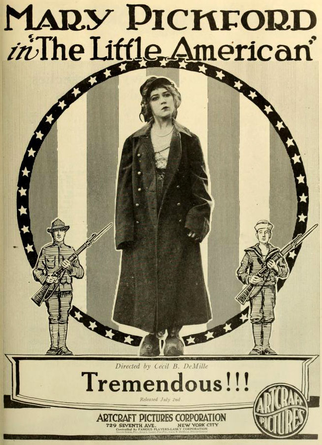 Advertisement in Moving Picture World (July 1917) for the American war drama film The Little American (1917) with Mary Pickford.